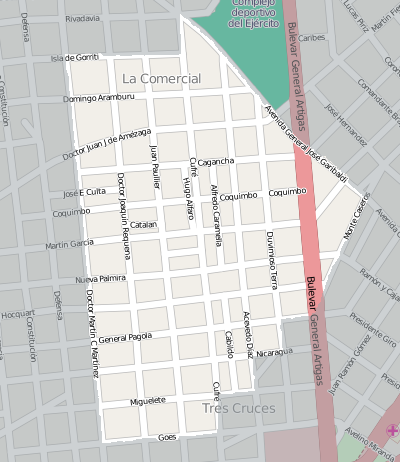 Street map of La Comercial, Montevideo, exported from OpenStreetMap. I added shading to delimit the barrio. This map may be incomplete, and may contain errors. Don't rely solely on it for navigation.